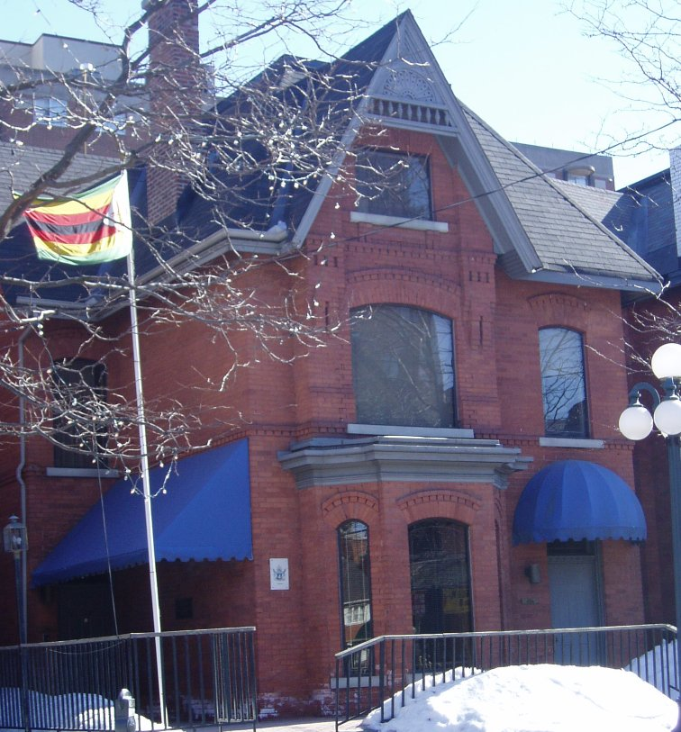 Embassy of Zimbabwe in Ottawa. Taken by SimonP in March 2005